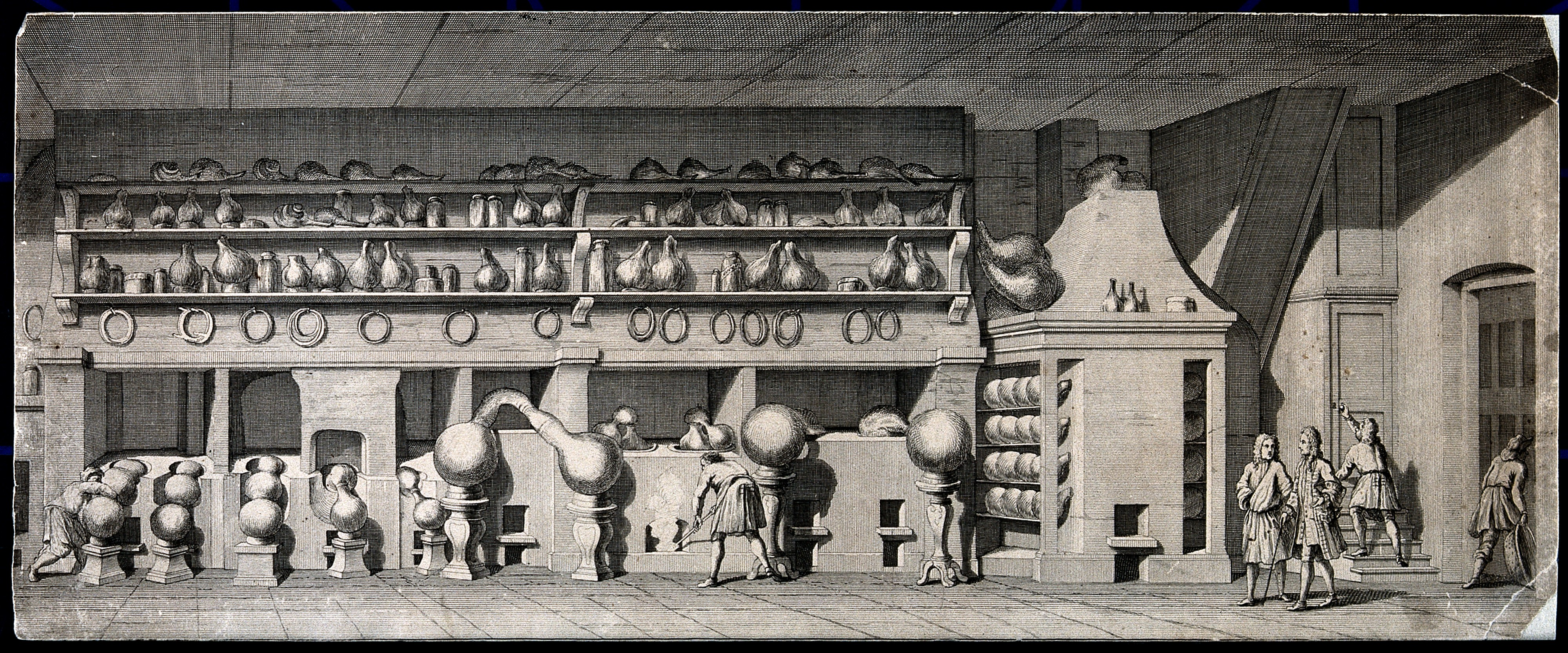 The chemical laboratory of Ambrose Godfrey. Etching, 18th century. Iconographic Collections Keywords: chemical laboratory; ambrose godfrey; Ambrose Godfrey; apothecary jars; chemical apparatus